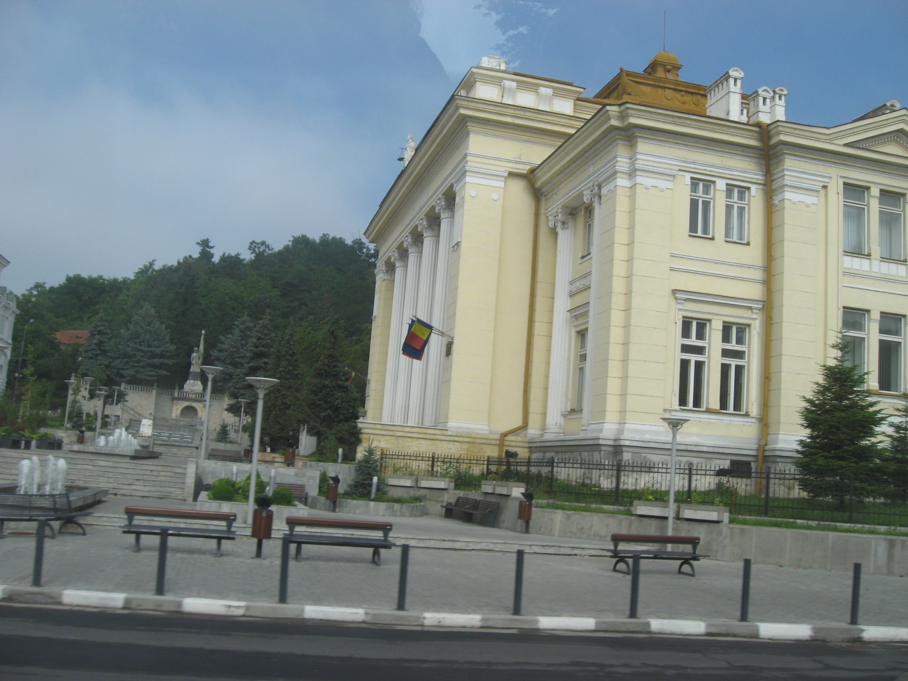 The Court House in Râmnicu Vâlcea, built between 1906-1907.